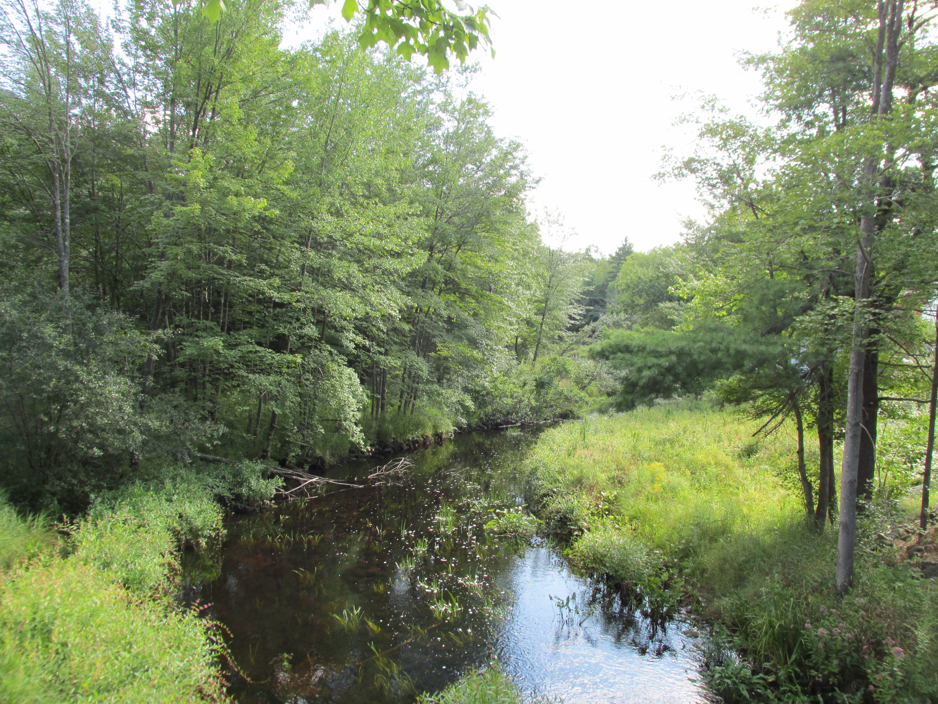 North Millers River, Winchendon Springs Massachusetts - 2013